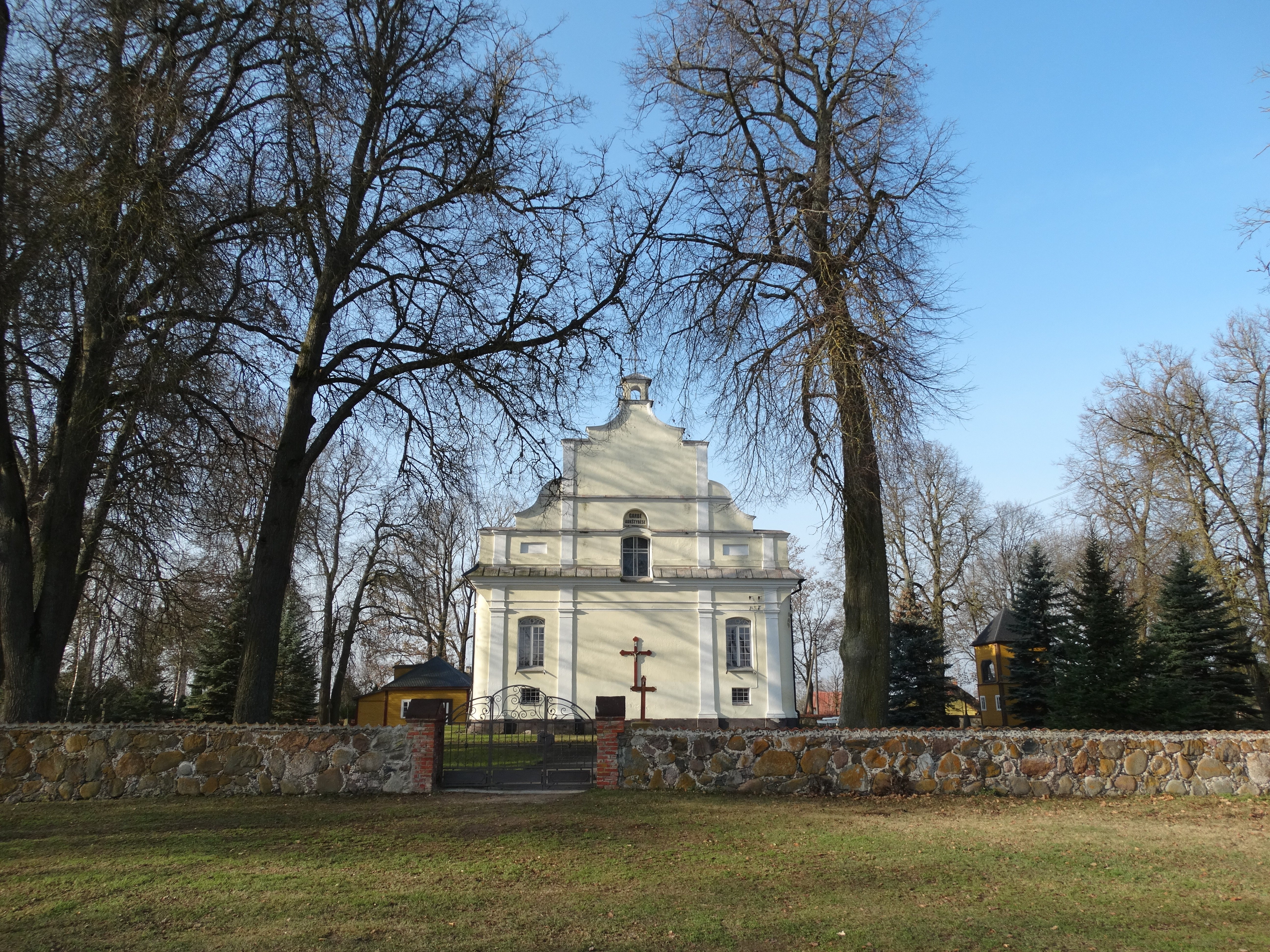 Daujėnai church, Pasvalys District, Lithuania